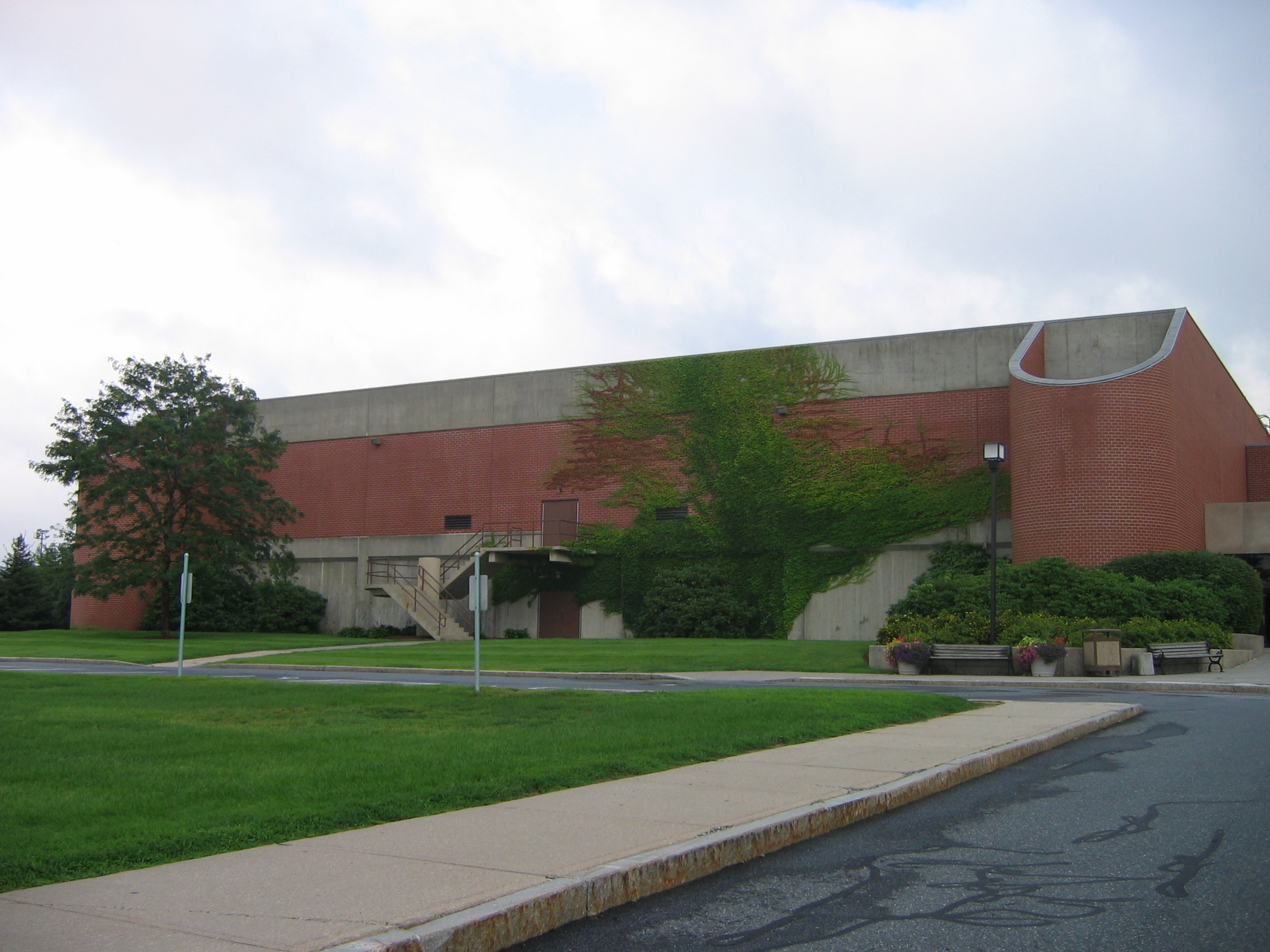 U Holy Cross Hart Center